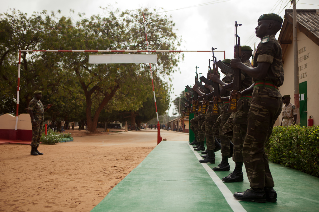 Gambian soldiers, under the command of Warrant Officer James Mendy practice drill and ceremony before the arrival of Lt. Gen. Masanneh Kinteh at the Africa Endeavor Exercise site at Falajar Barracks, the Gambia for an inspection, July 15. (U.S. Army photo by Sgt. Daniel T. West, 358th PAD)